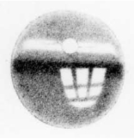 An optogram, an image on the retina of a rabbit, using an alum solution to fix the rhodopsin in the eye like a photographic negative. The image is a window the rabbit was facing before it was killed and dissected. The image was produced in 1878 by the German physiologist Wilhelm Friedrich Kühne.